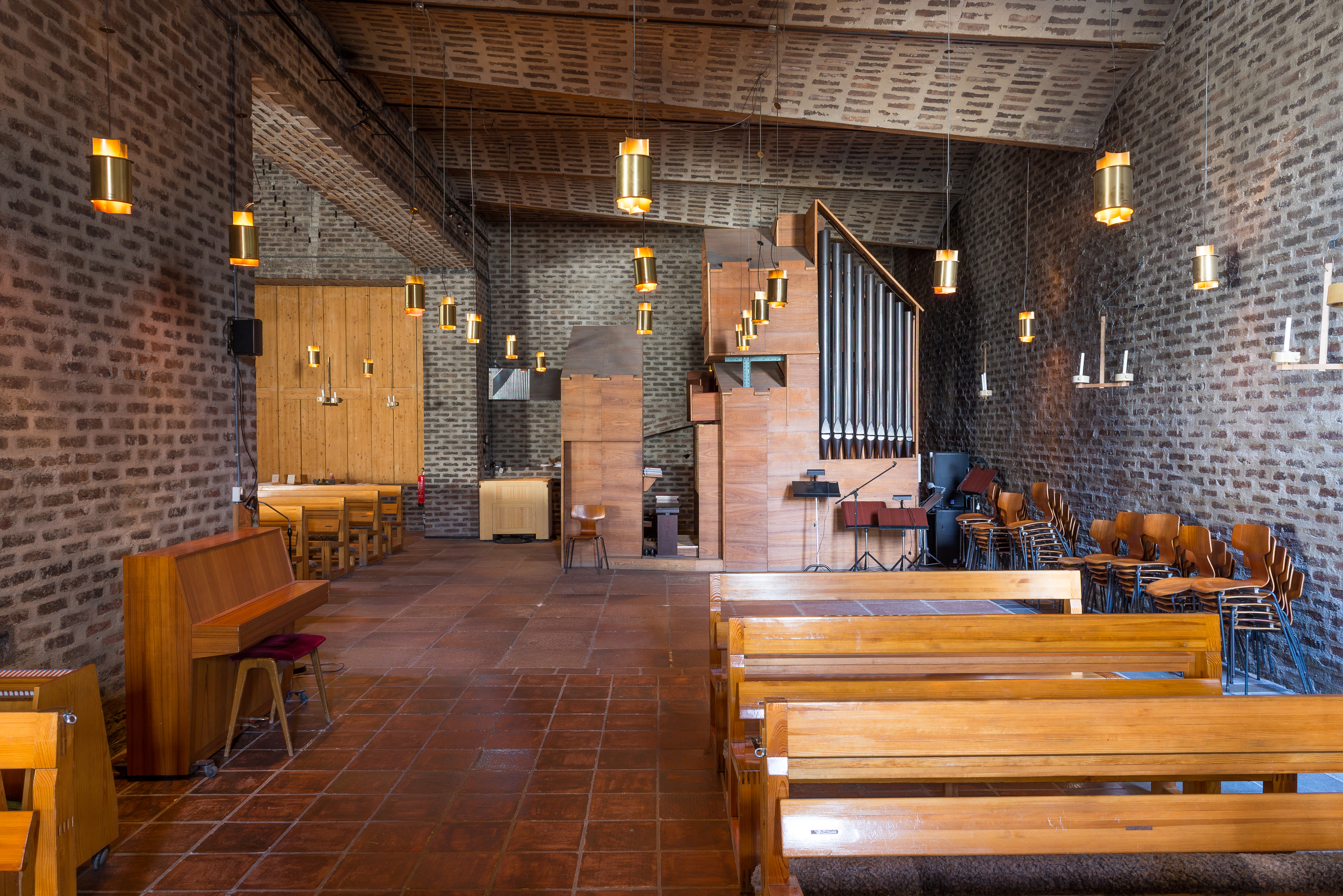 Interior of Markuskyrkan (St Mark`s church), Björkhagen, Stockholm. Built 1958-60. Architct: Sigurd Lewerentz.